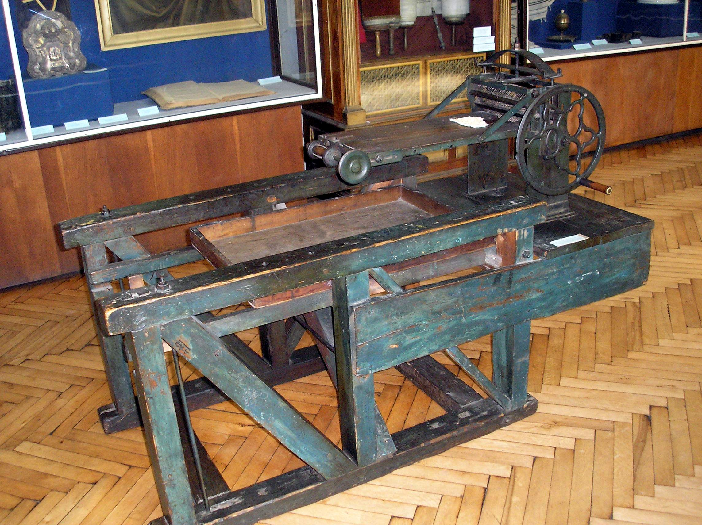 Matzo-forming machine. Begin XX centuries. The Lviv Museum of the History of Religion.